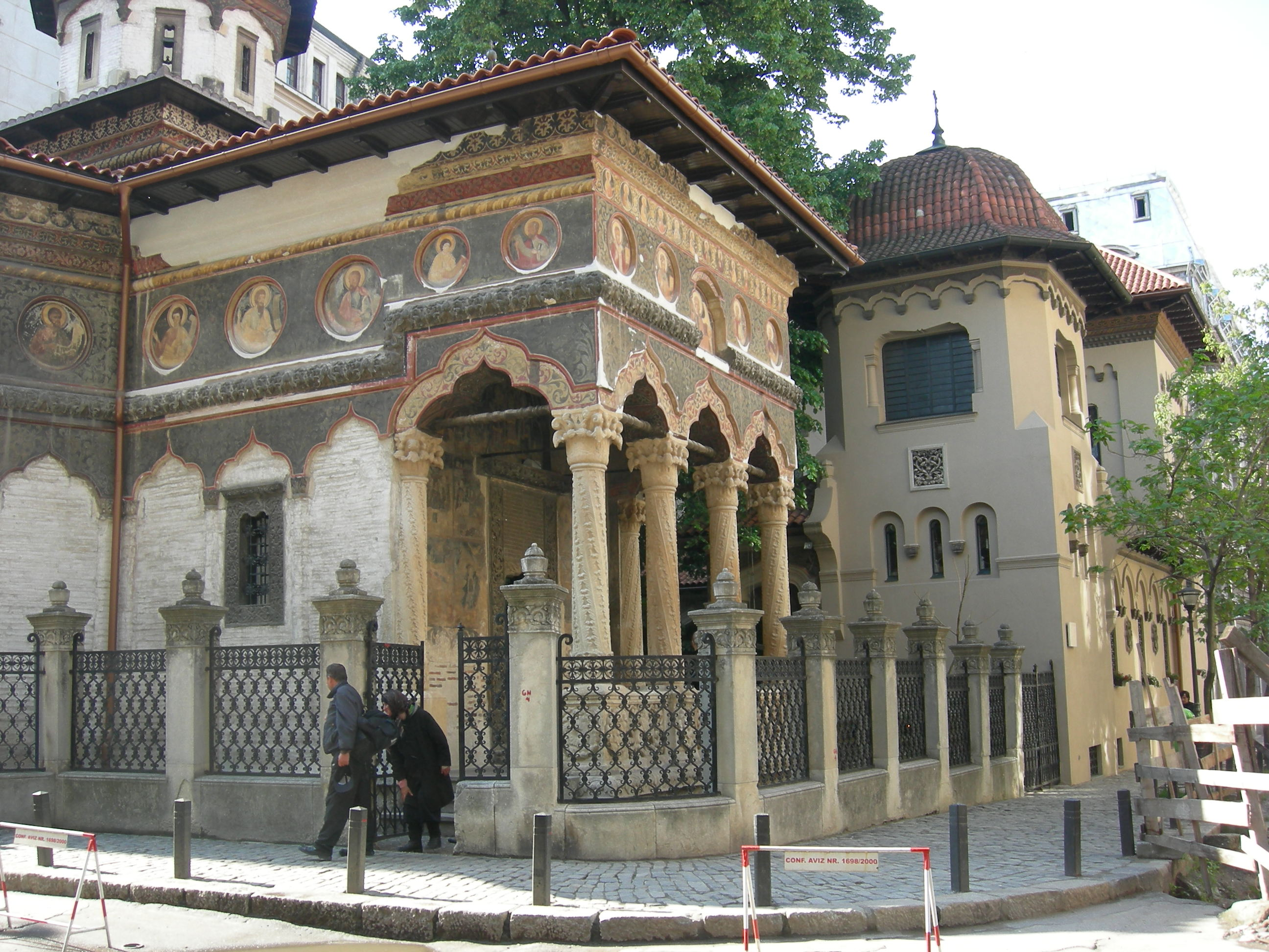 Stavropoleos Church, Bucharest, Romania